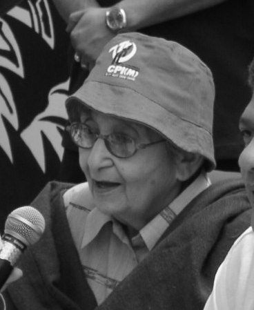 PMS Lakshmi Sehgal (captain in the Indian National Army) at a Press conference for the book release of "Memoirs - 25 Communist Freedom Fighters" by Sitaram Yechuri at the 18th congress of Communist Party of India (Marxist), Delhi, 2005.